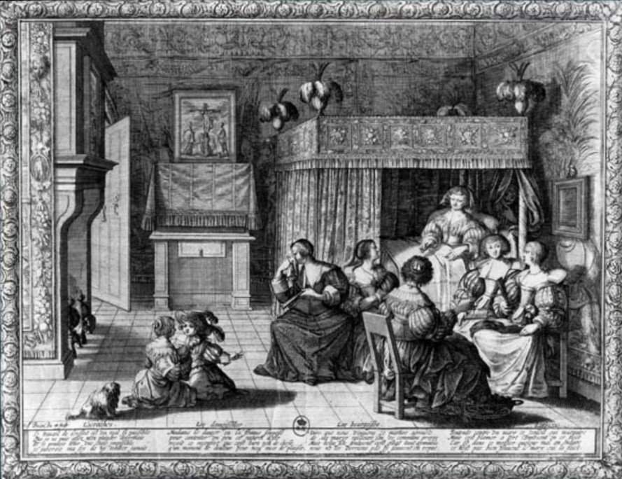 Marquise de Rambouillet’s Chambre Bleue by Abraham Bosse